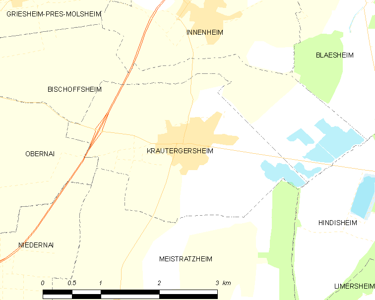 Map of French municipality